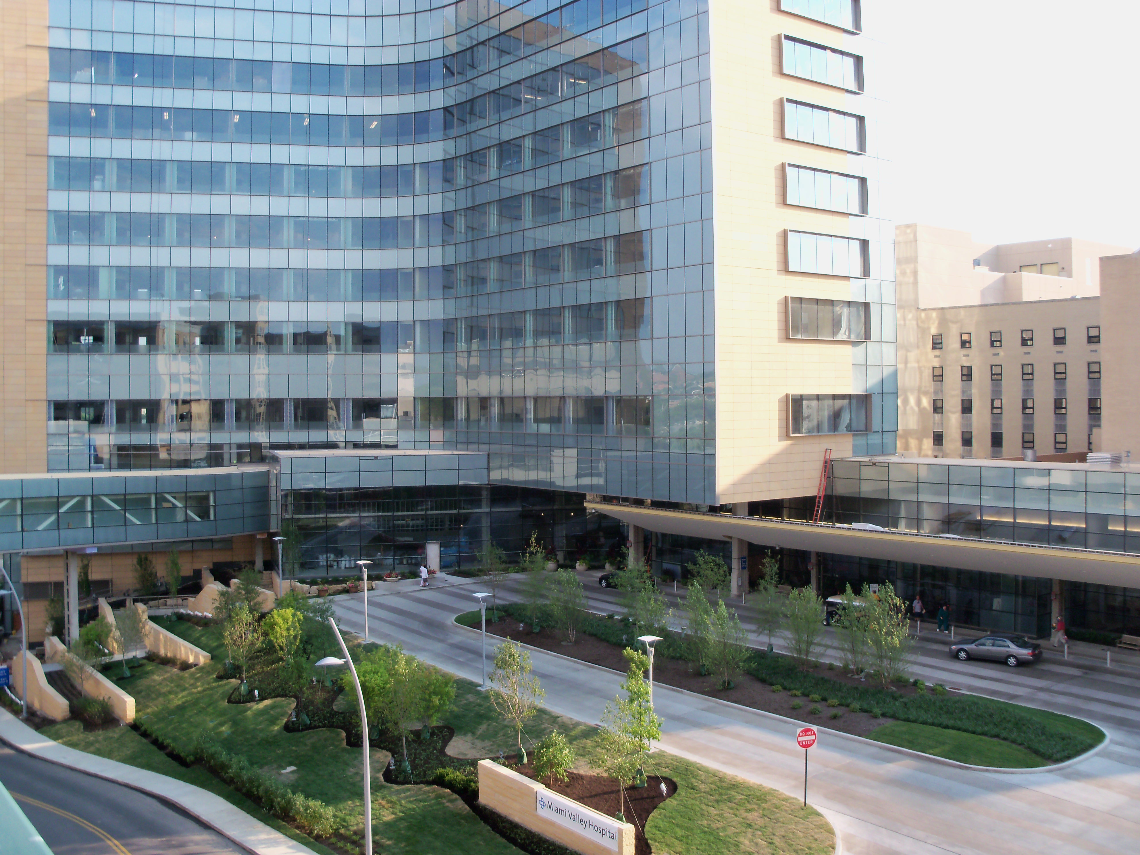 A view of the southeast tower addition at Miami Valley Hospital.